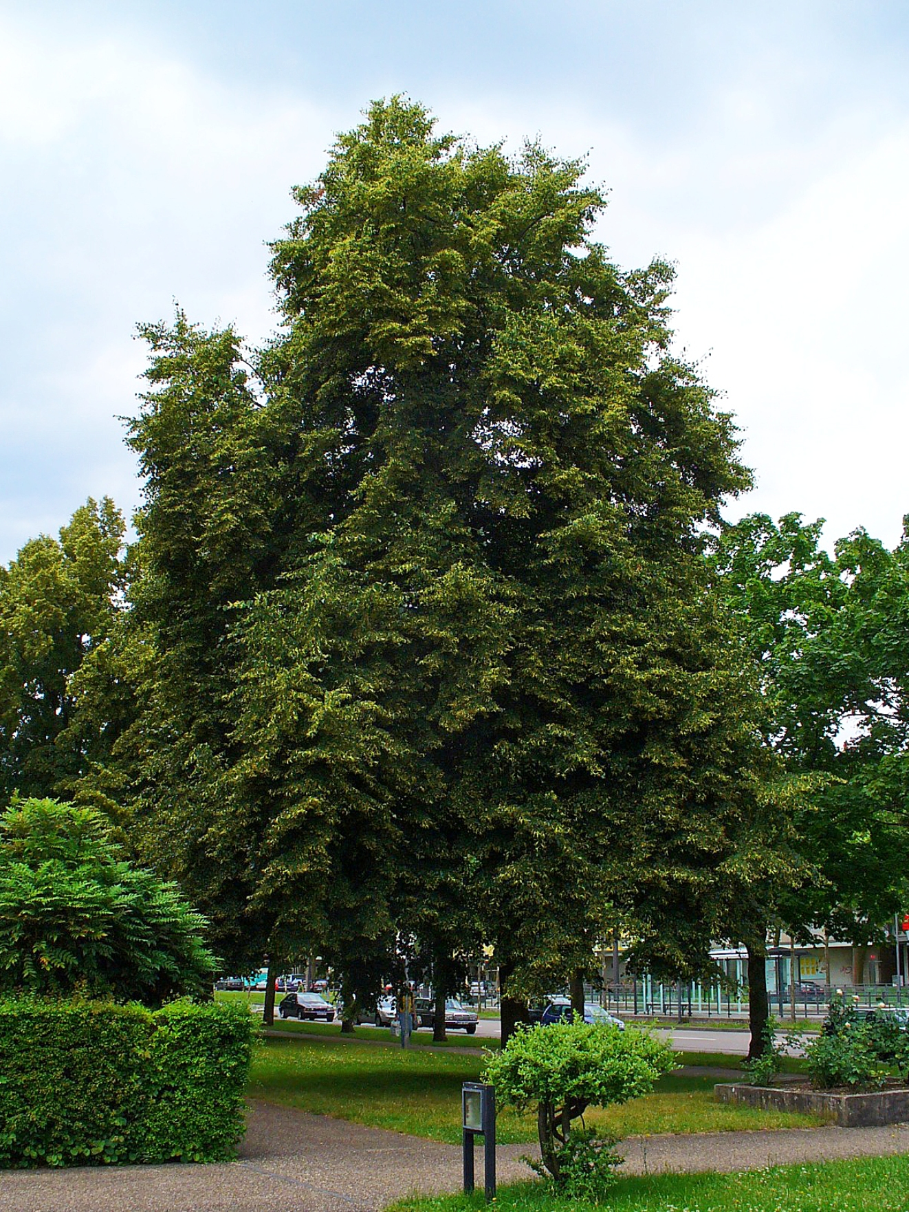 Tilia x euchlora, Malvaceae, Caucasian Lime, habitus. Karlsruhe, Germany.